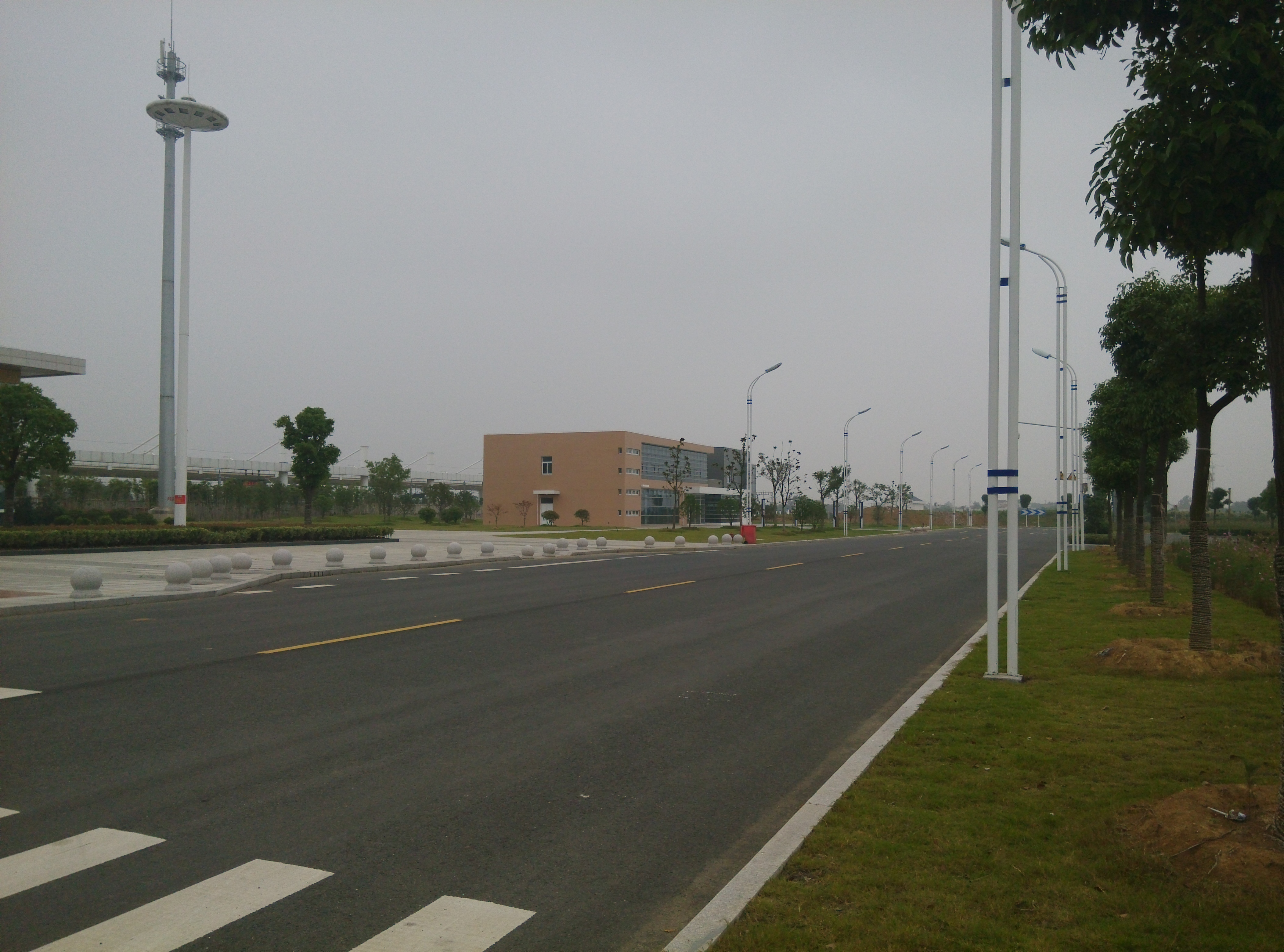 Wawushan Railway Station ancillary building (east)